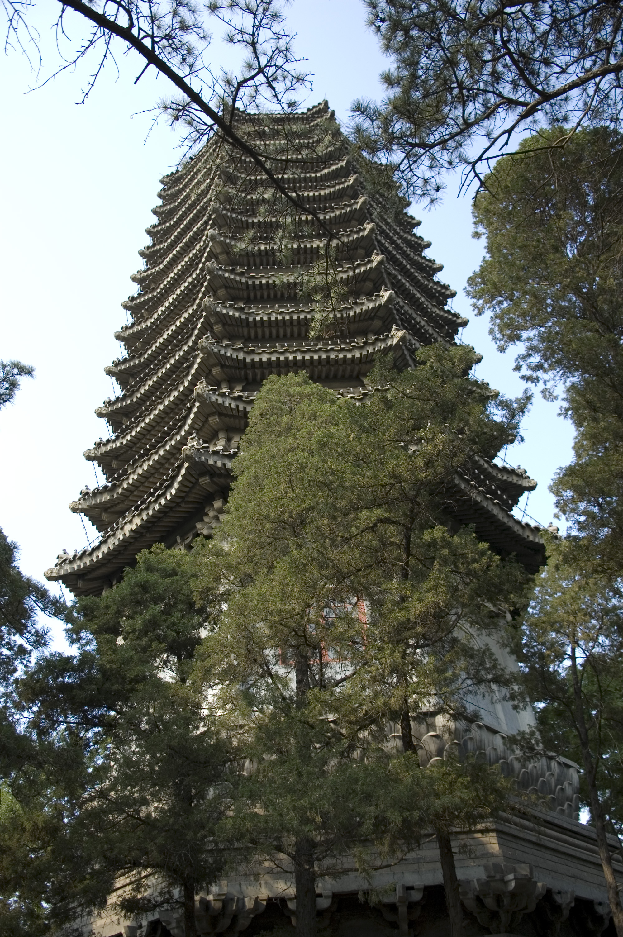 A Chinese pagoda at the Peking University campus in Beijing